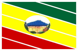 The municipal flag of Nirgua (Yaracuy),Venezuela